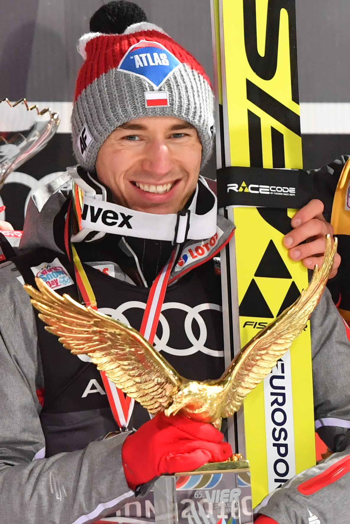 FIS Ski Jumping World Cup, Four Hills Tournament, Bischofshofen 2017. Image shows Kamil Stoch (POL) at the award ceremony.